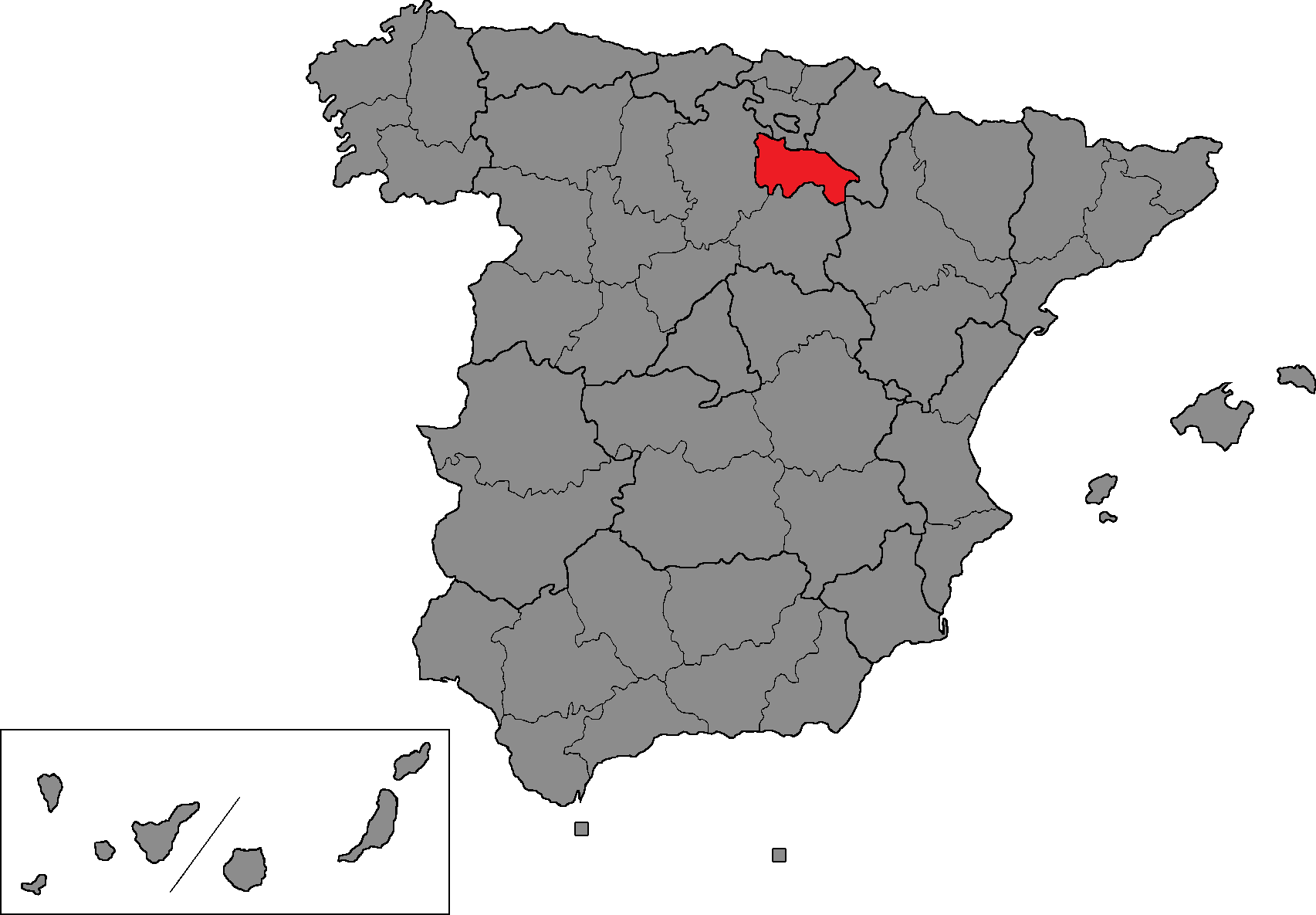 Spanish Congress of Deputies district of La Rioja.